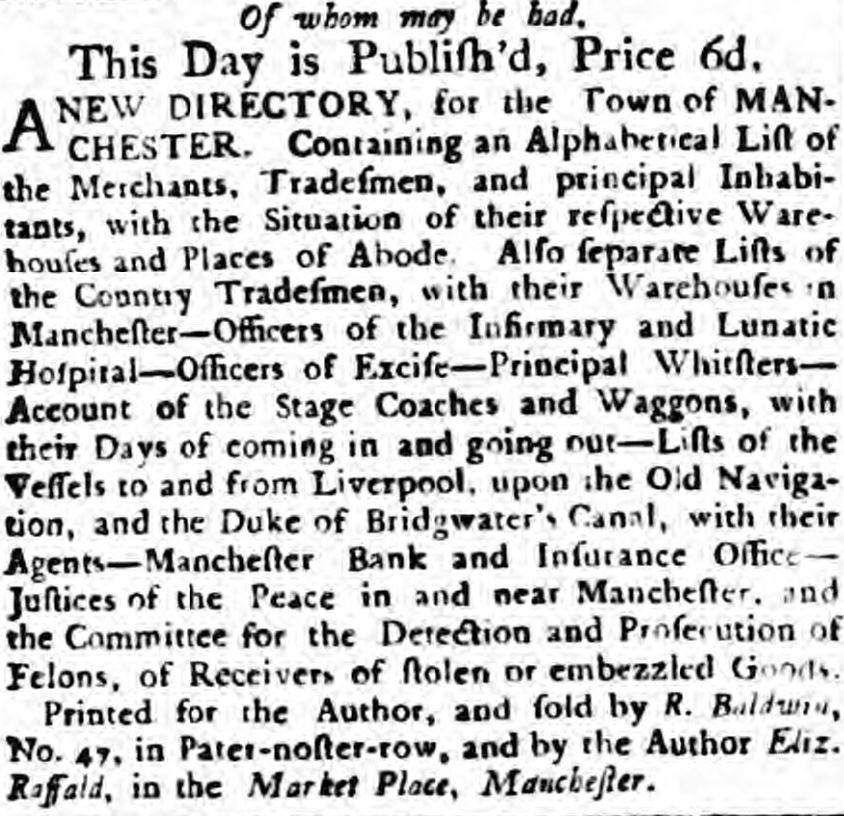 Advert for The Manchester Directory, 1772